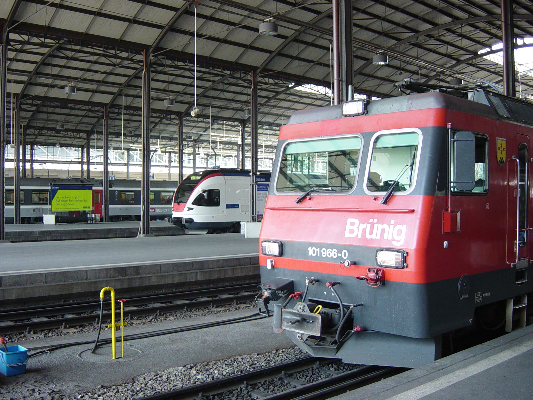 Train platforms with narrow gauge and normal gauge in Lucerne